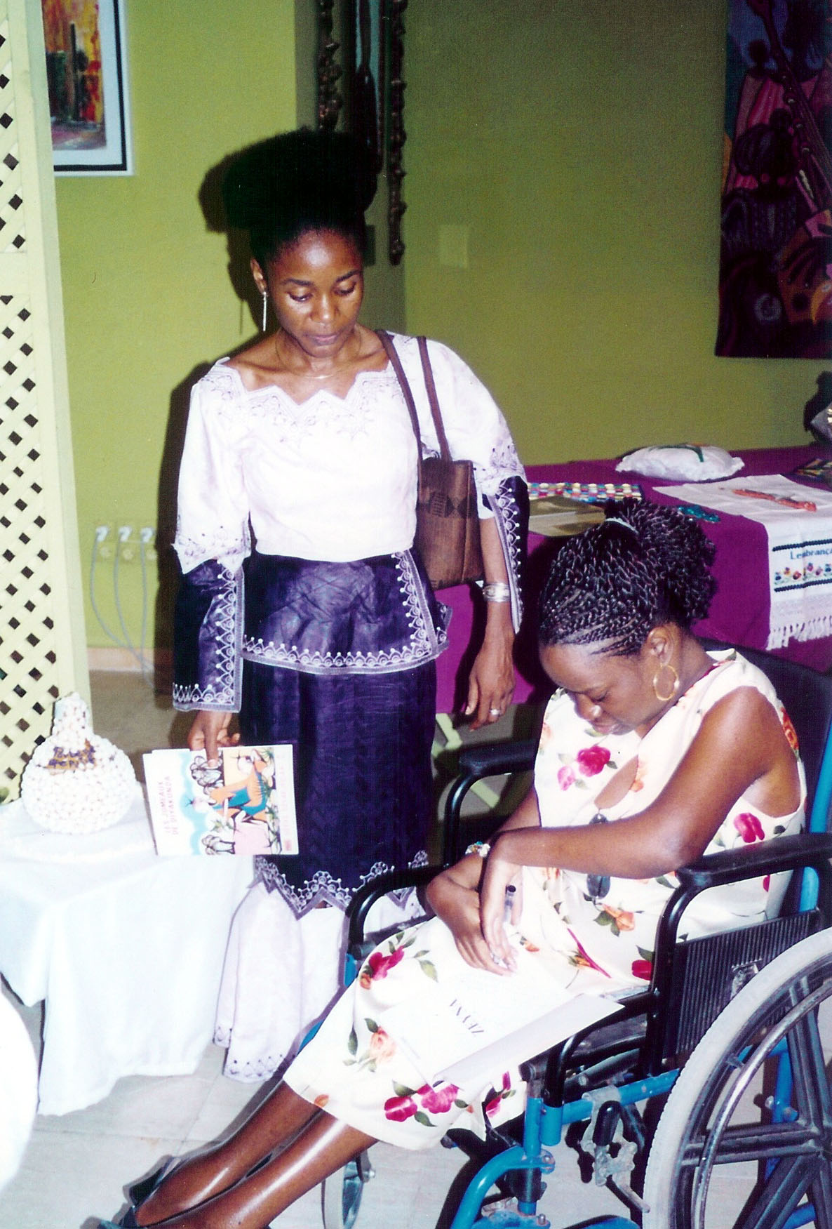 Senegalese novelist Aissatou Cissé (right), alongside Coumba Touré, the Cours Sainte Marie de Hann (Dakar, Senegal) on International Women's Day